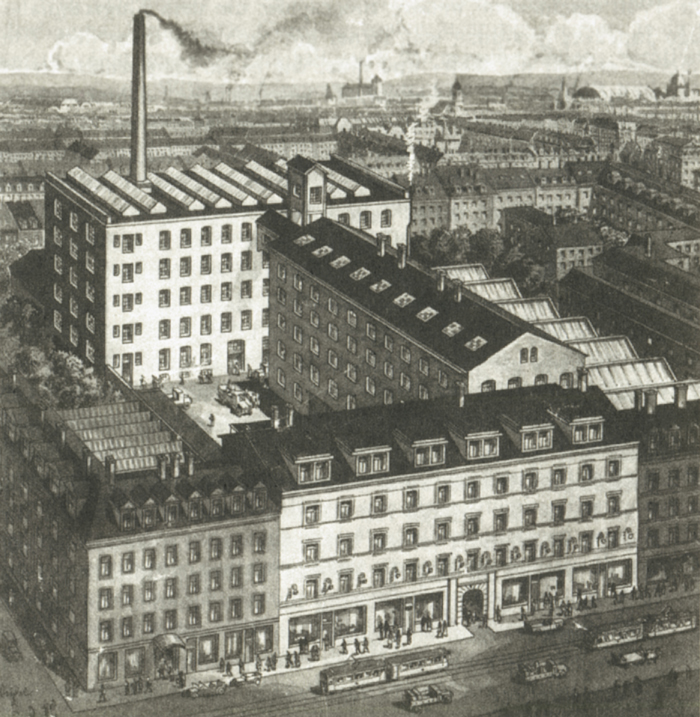 „Overall view on the printing house Wilhelm Limpert in Dresden“, published in an advertising leaflet, ca. 1930.